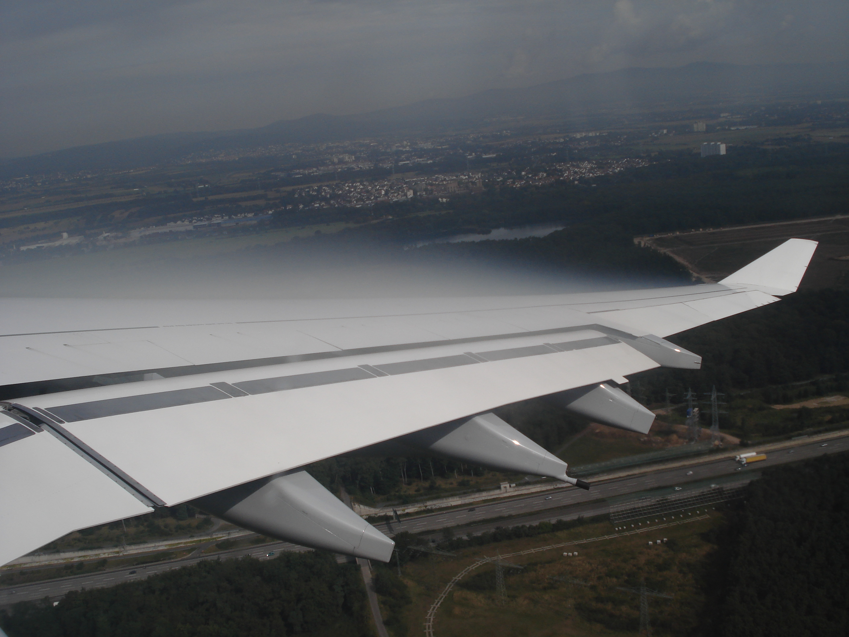 Condensate forming in low pressure area over a wing of an A340.